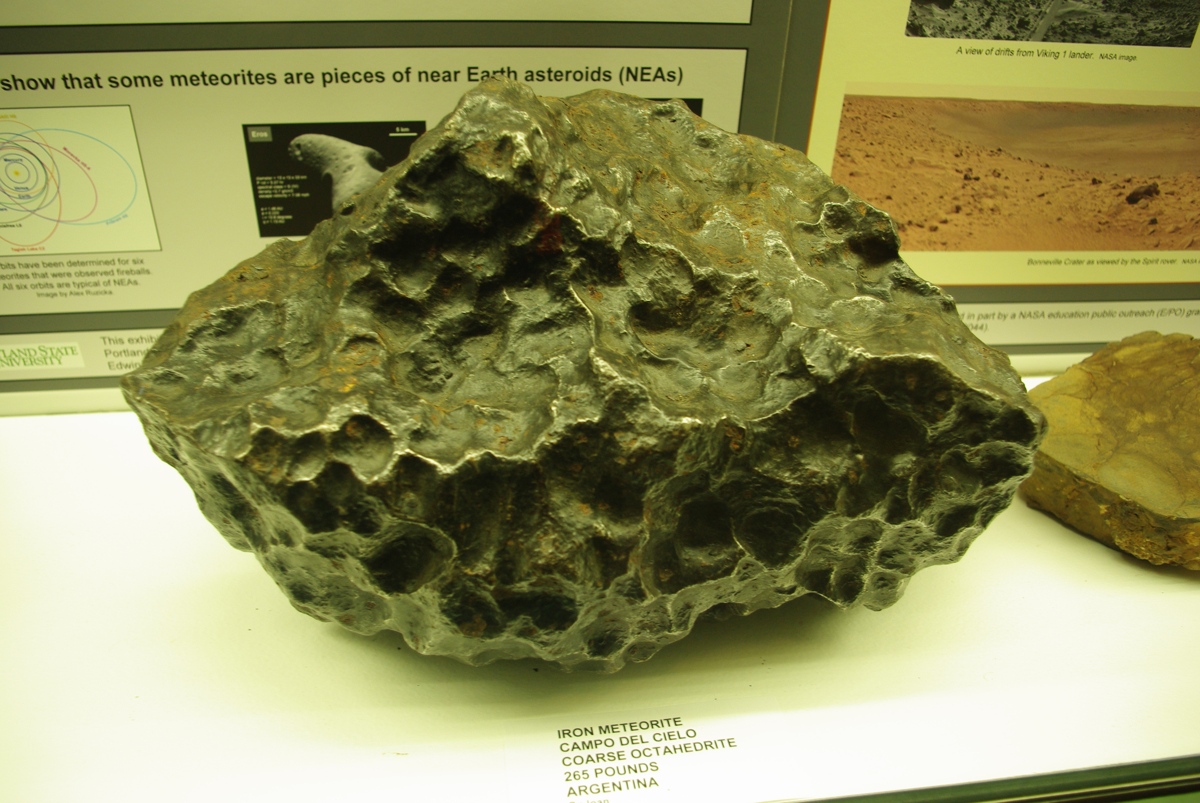 In the collections of the Rice Northwest Museum of Rocks and Minerals in Hillsboro, Oregon, USA. An iron meteorite, from the Campo del Cielo field in Argentina. 265 pounds.